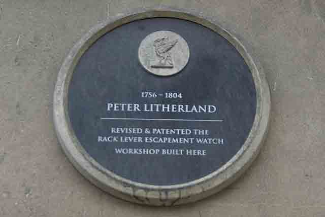 Commemorative plaque for Peter Litherland, Lewis's Department Store, 4 Renshaw Street, Liverpool